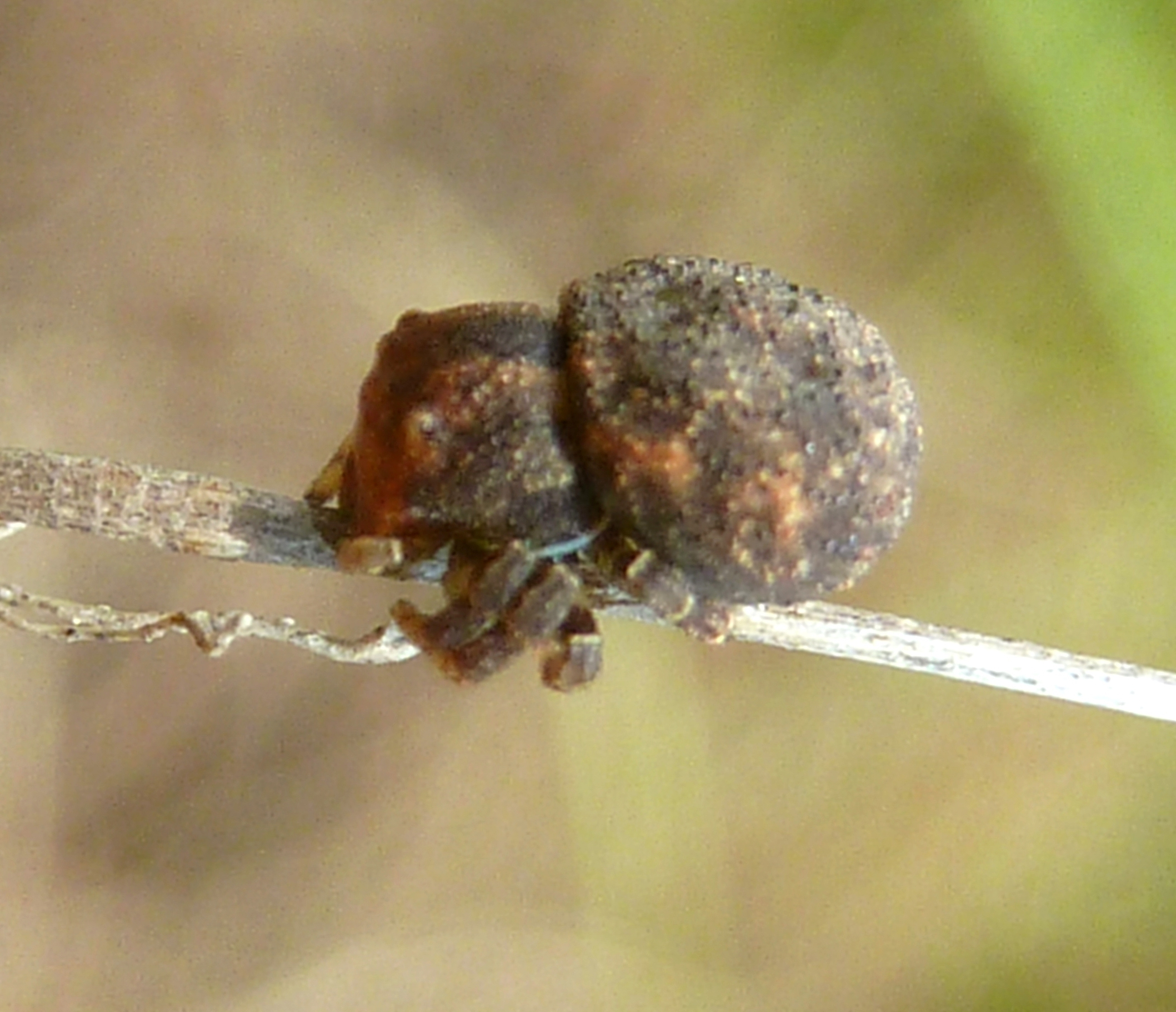 A small spider (Thomisops sulcatus) climbing down a grass stem at Dewetsnek, Magaliesberg